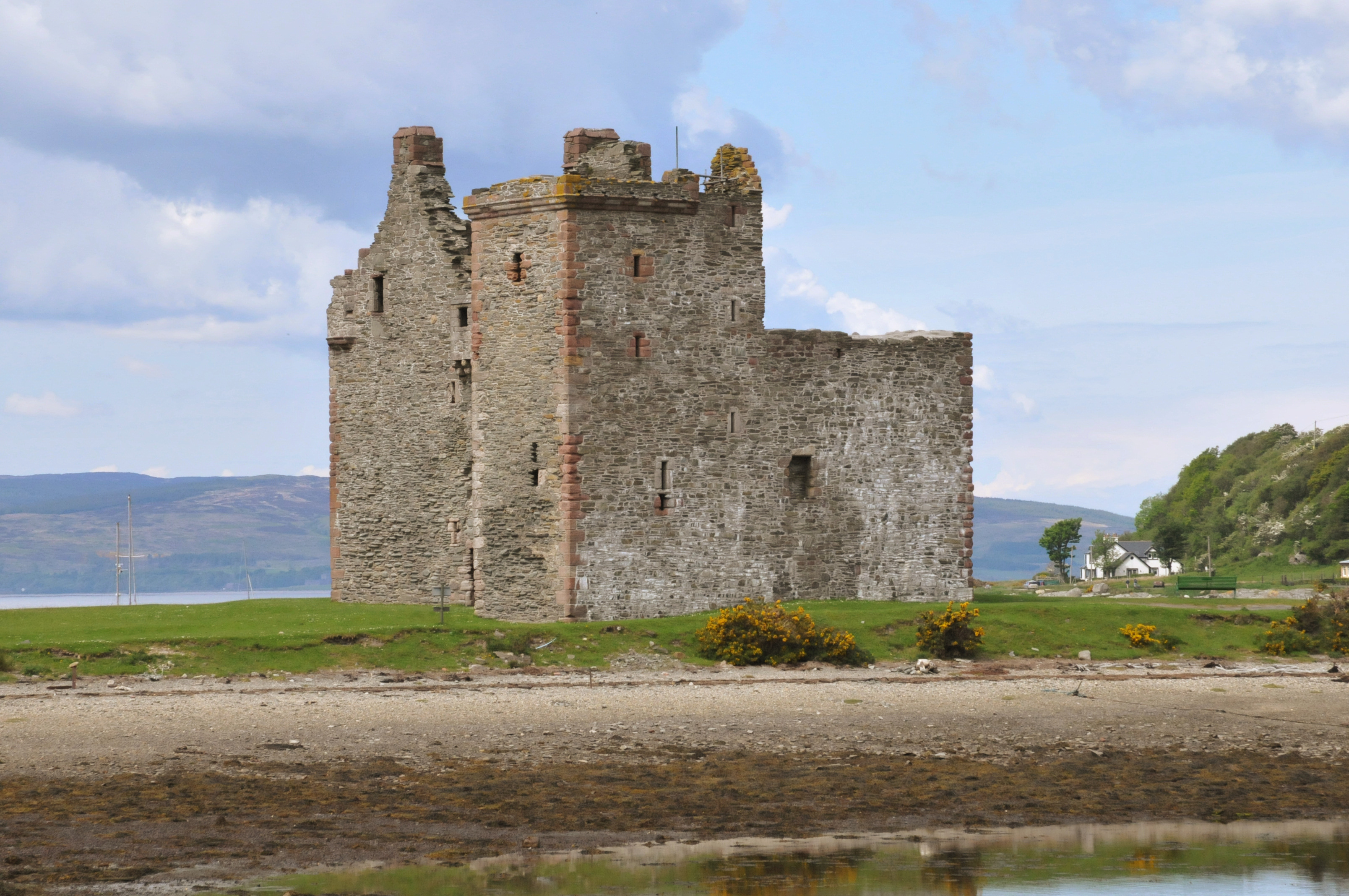 Lochranza Castle, Isle of Arran, south-eastern aspect